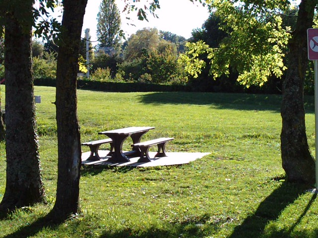 Picnic area in Haute-Savoie (Rhône-Alpes, France).